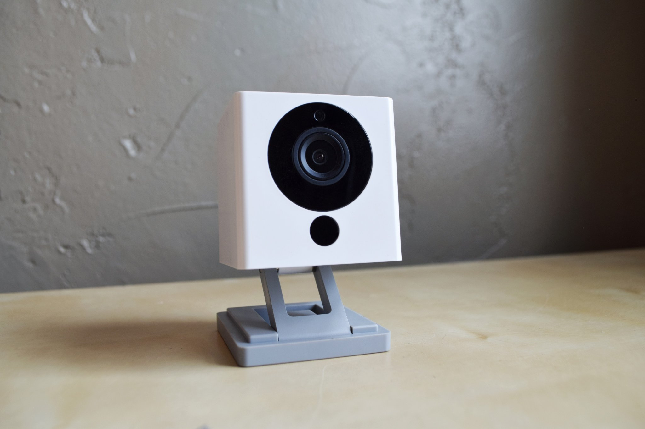 Home camera, Wyze Cam v2. Created by the Seattle based company, Wyze Labs.